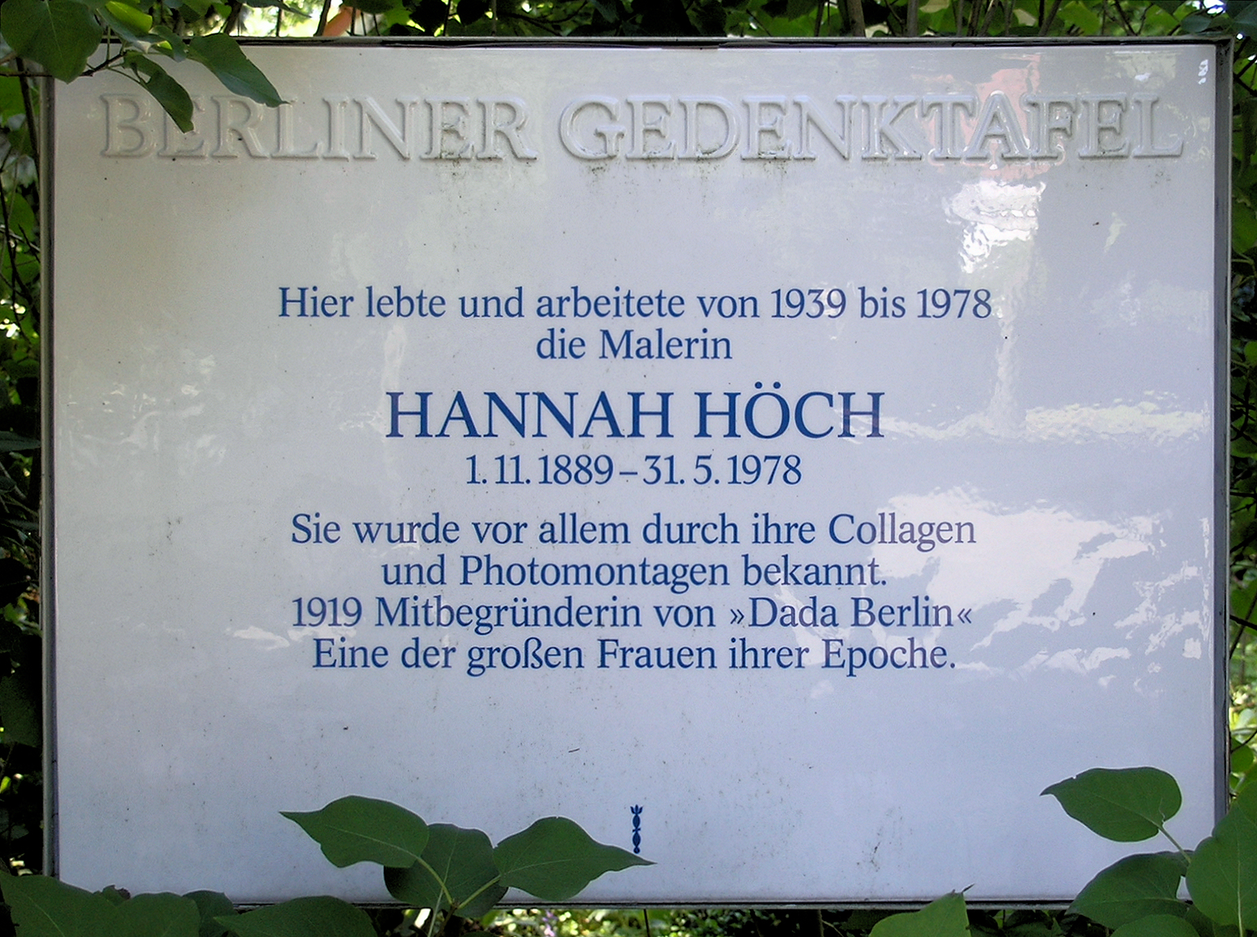 Berlin memorial plaque, Hannah Höch, An der Wildbahn 33, Berlin-Heiligensee, Germany